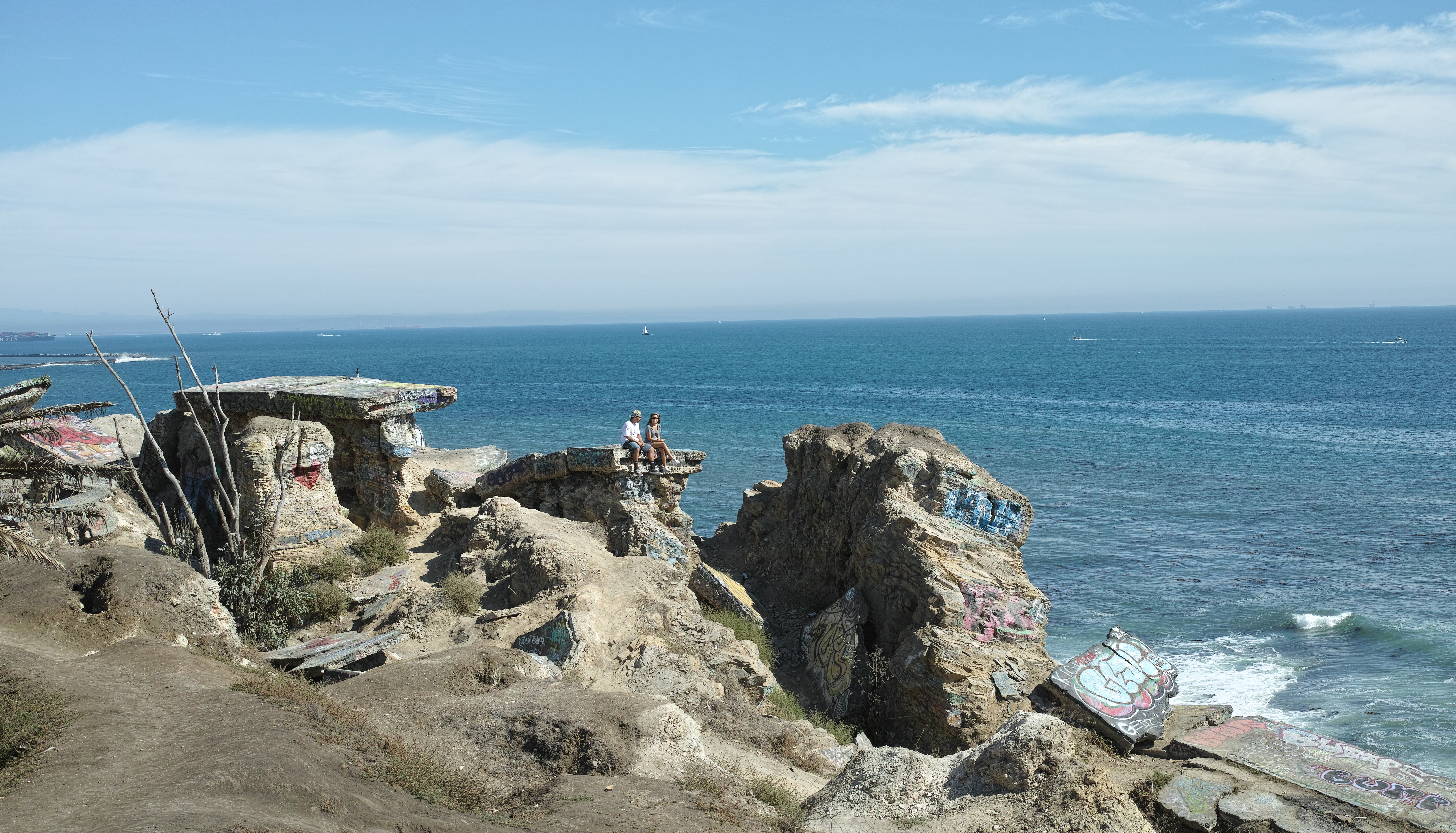 San Pedro, CA Perhaps the most surrealistic spot in Southern California